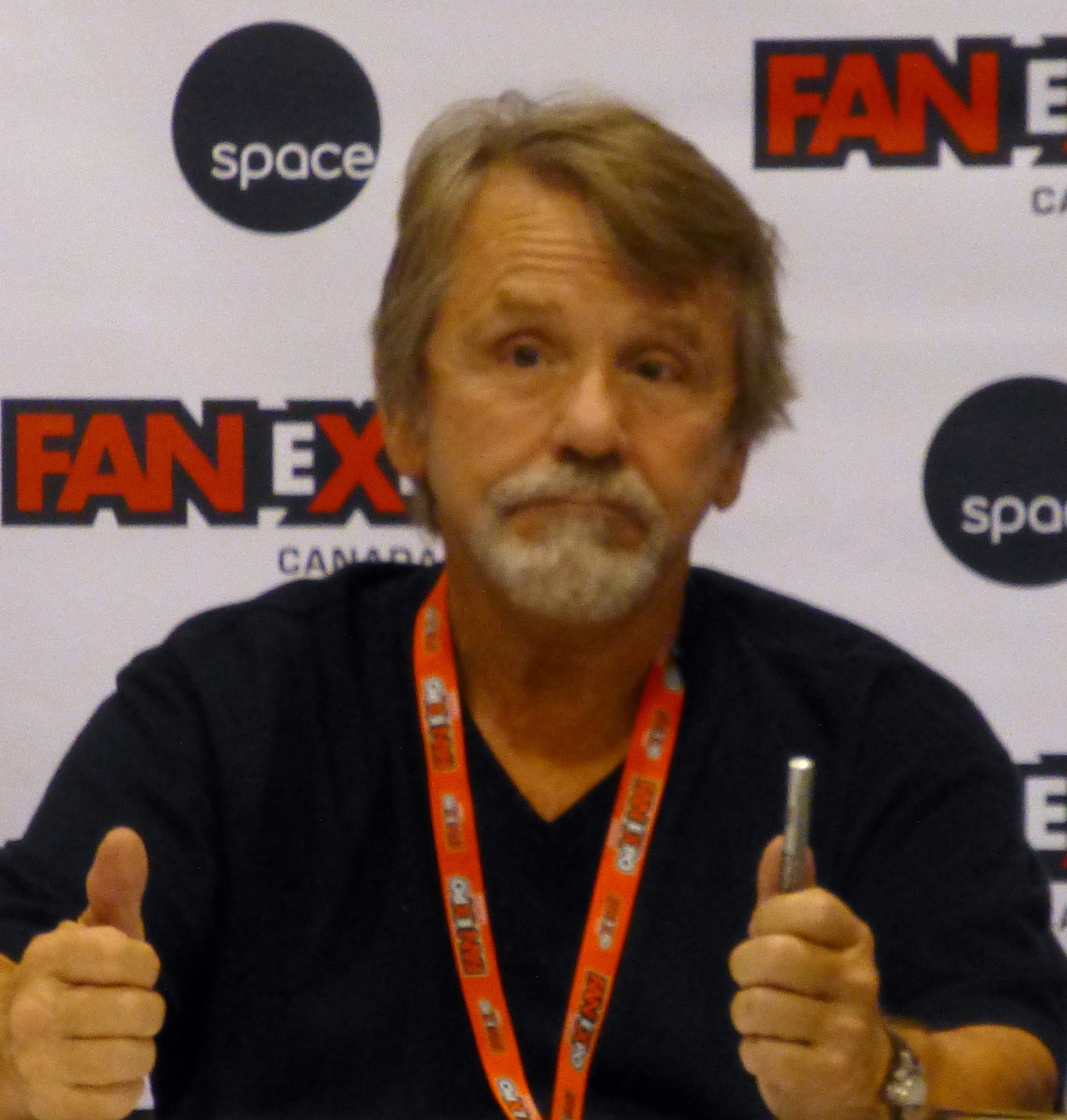 The guy who wrote Friday the 13th and came up with Jason. 2014 Fan Expo Canada